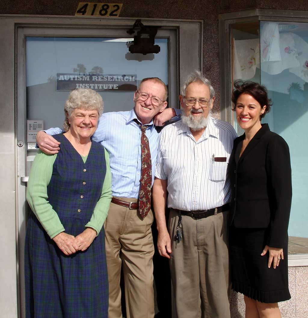 Dr. Bernard Rimland (bearded) in front of the Autism Research Institute. With him are his wife (on the left) Dr. Robert Sands and Kerri Rivera on the right. Photograph taken by Matt Kabler of the Autism Research Institute and released into the public domain with his permission.